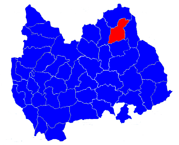 Map showing location of Loughmore-Castleiney parish in the diocese of Cashel and Emly